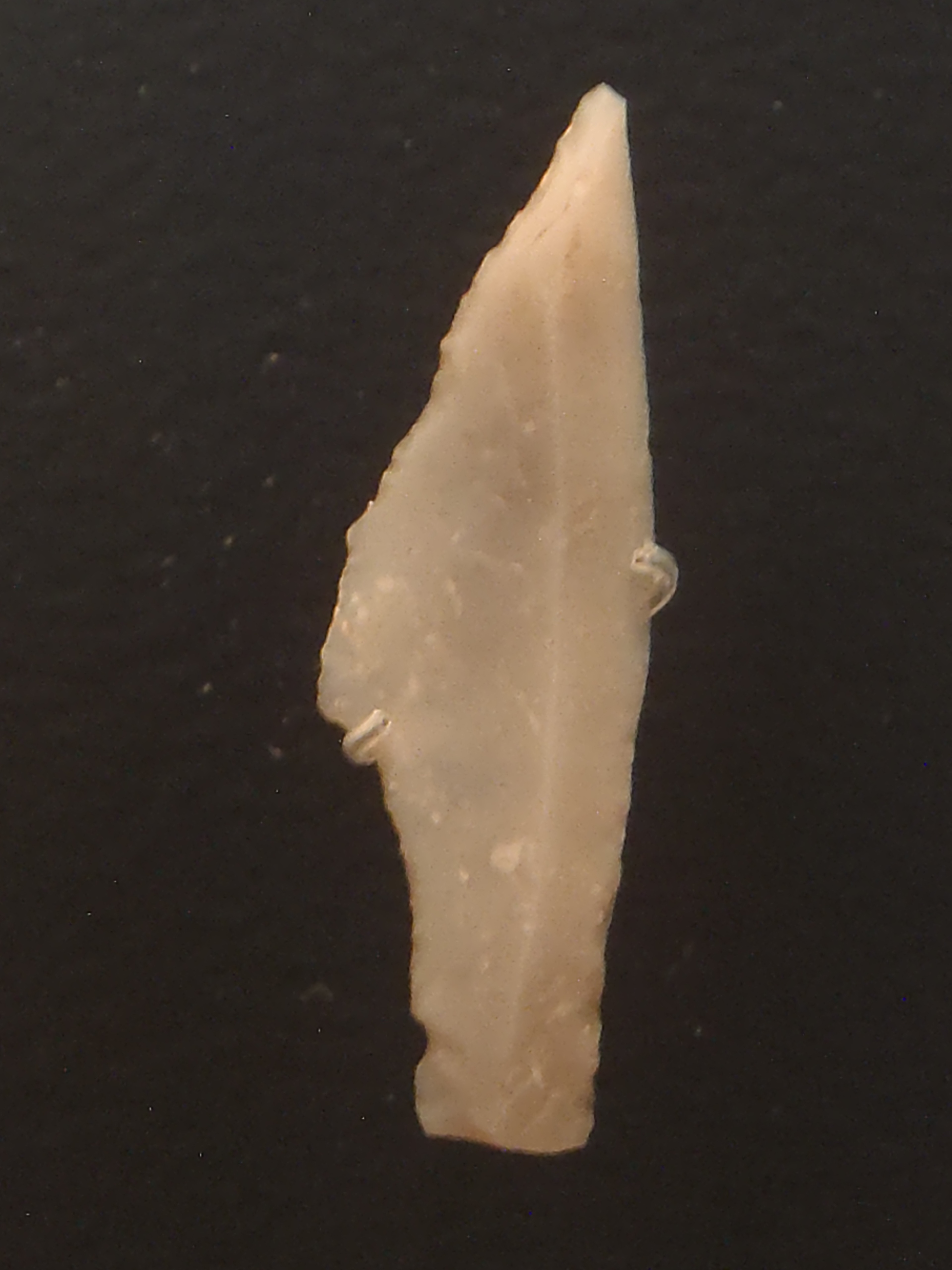 National museum of Denmark description: "The oldest projectile point from Denmark: shouldered flint point from Bjerlev Hede, central Jutland. 12,500 BC.